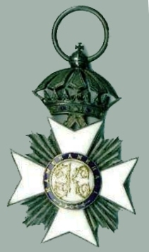 Badge of Knight Companion of the Order of Kamehameha I Author: Ian Watts